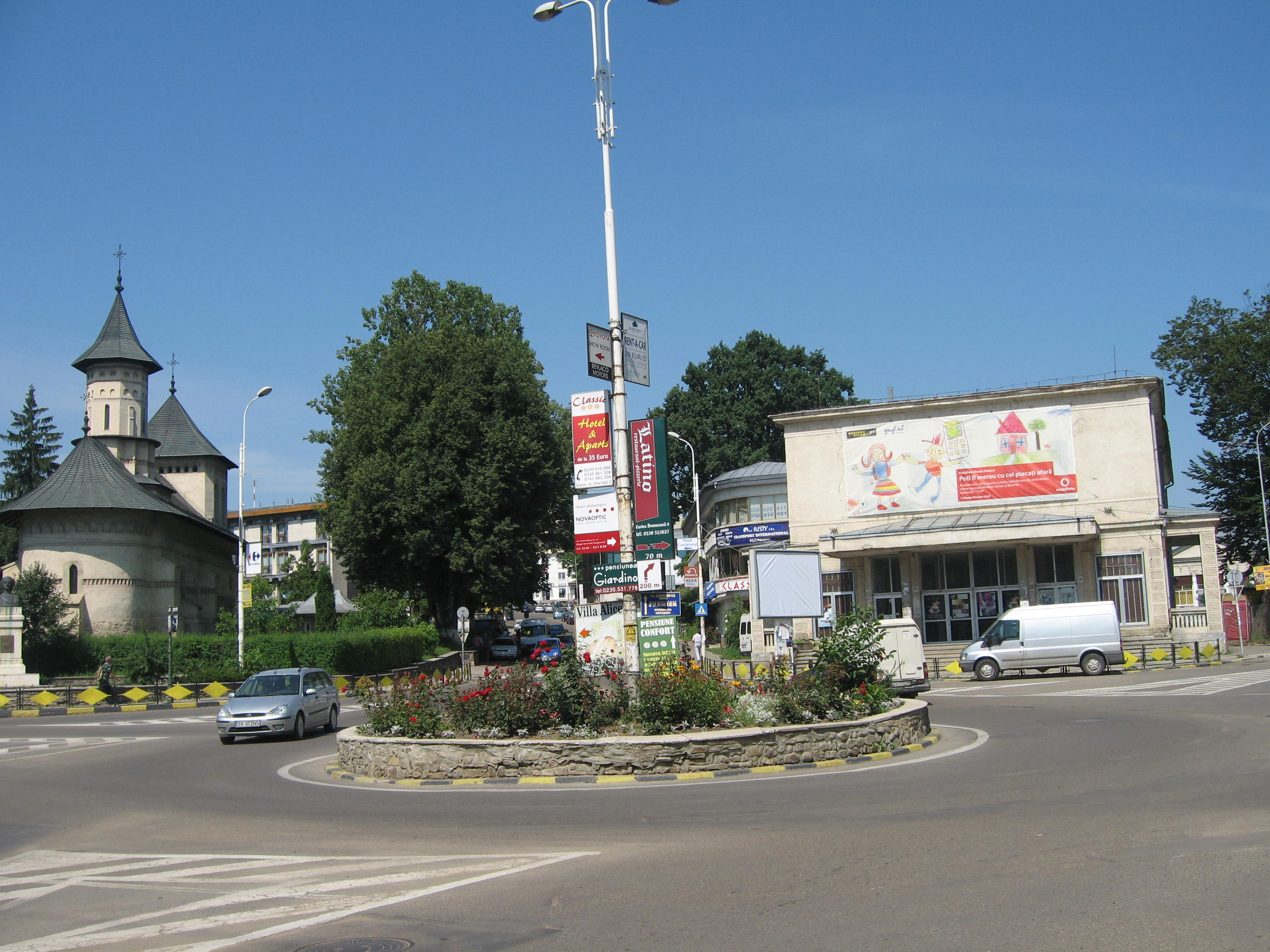 St. Nicholas Church in Suceava and Modern Movie Theater.